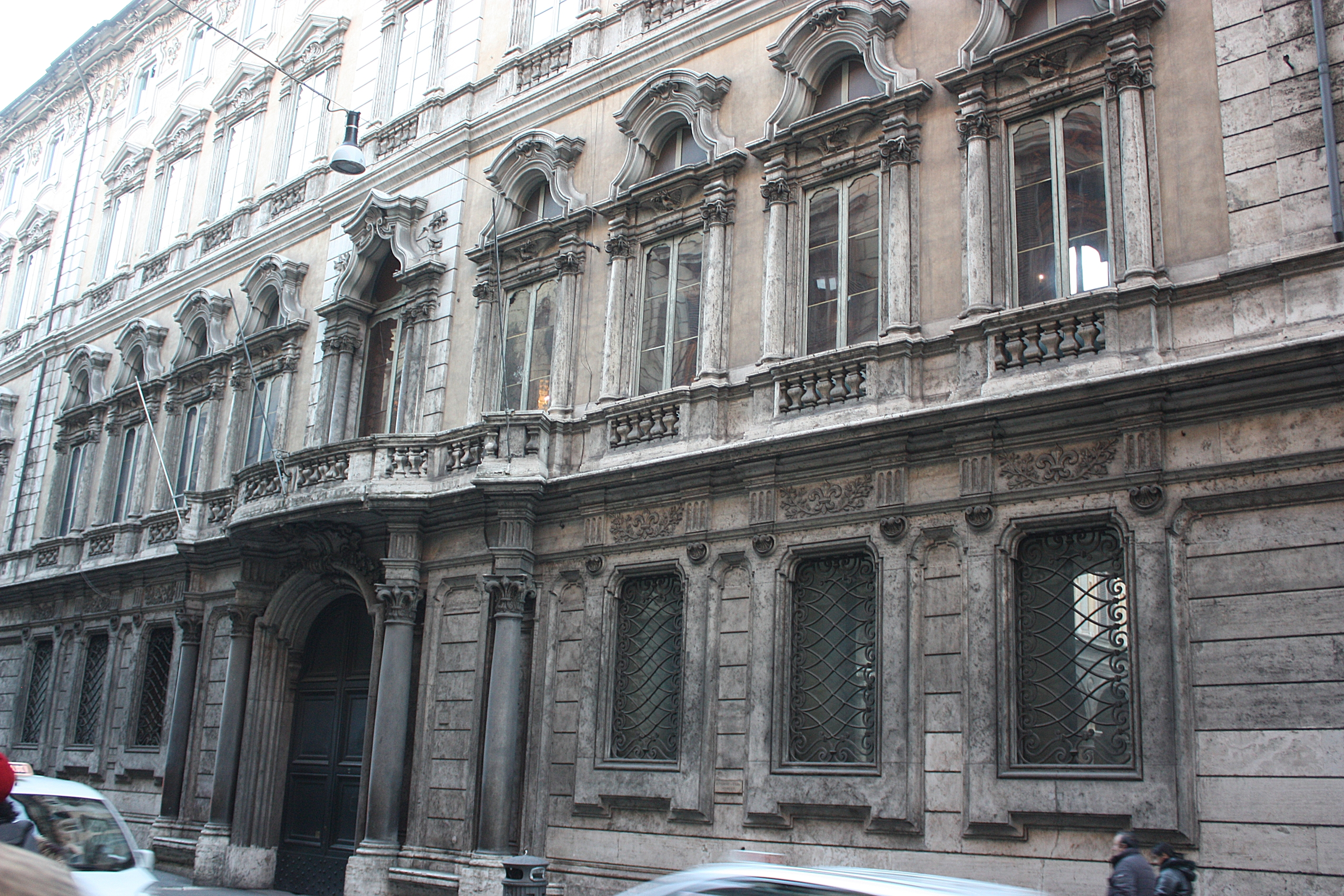 Rome, the Palazzo Doria Pamphilj